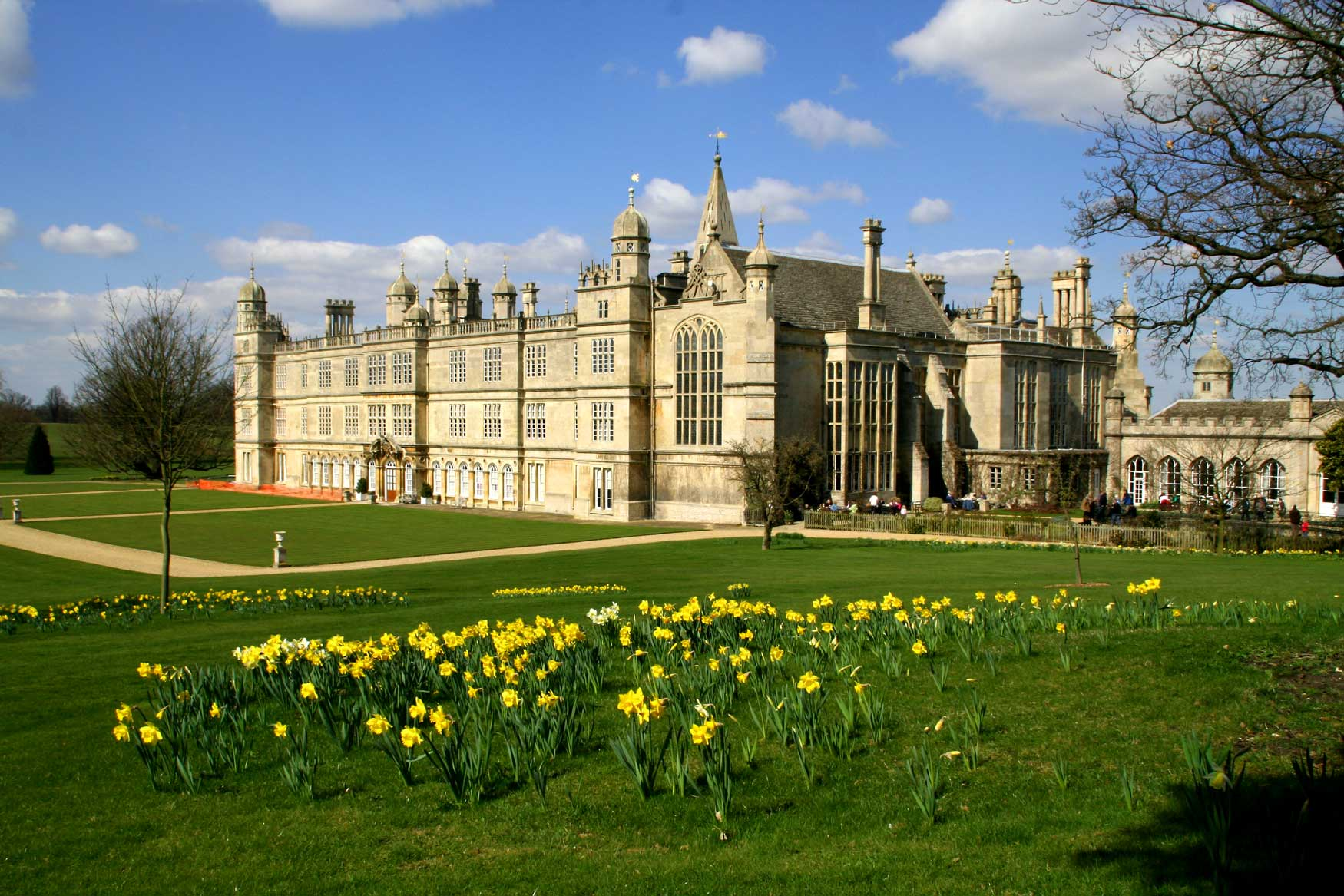 Burghley House near Stamford, the Elizabethen Home of Lord Burghley